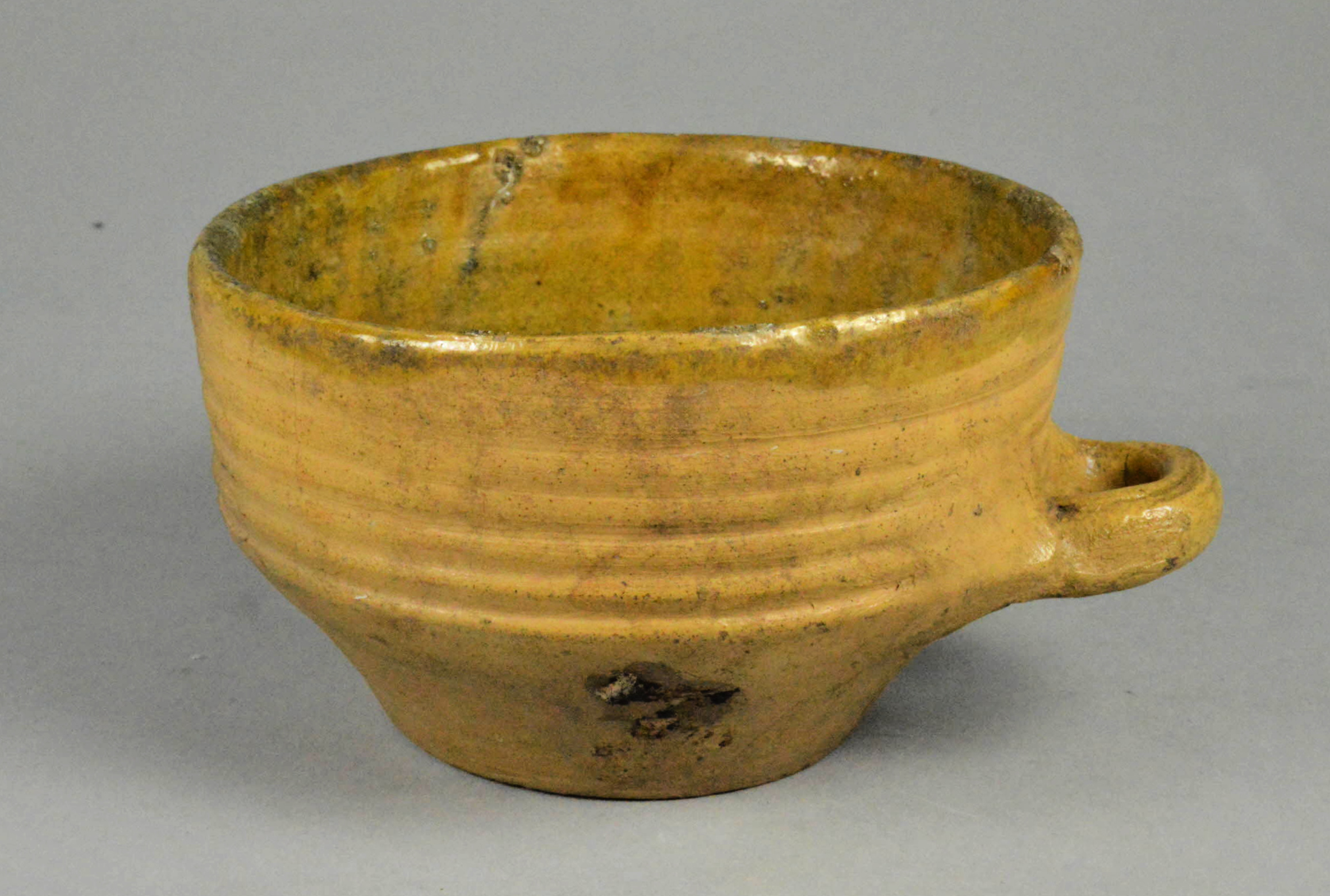 Border ware porridger. Manufactured in the Surrey-Hampshire border area of Britain. 16th century. Horizontal loop handle. Height 3 inches.